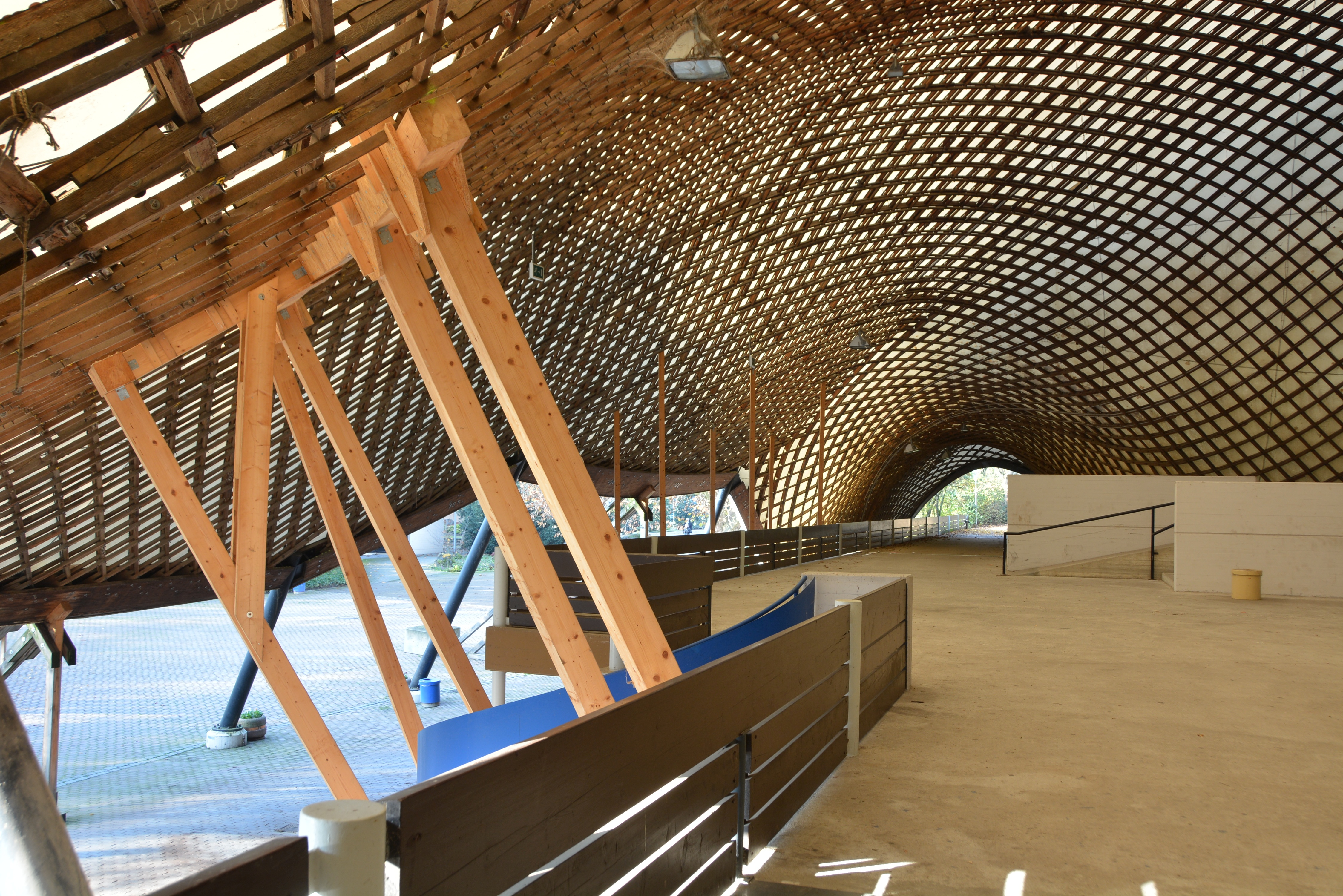 Multi hall, Herzogenried park, Mannheim (Germany), supports at the roof edge